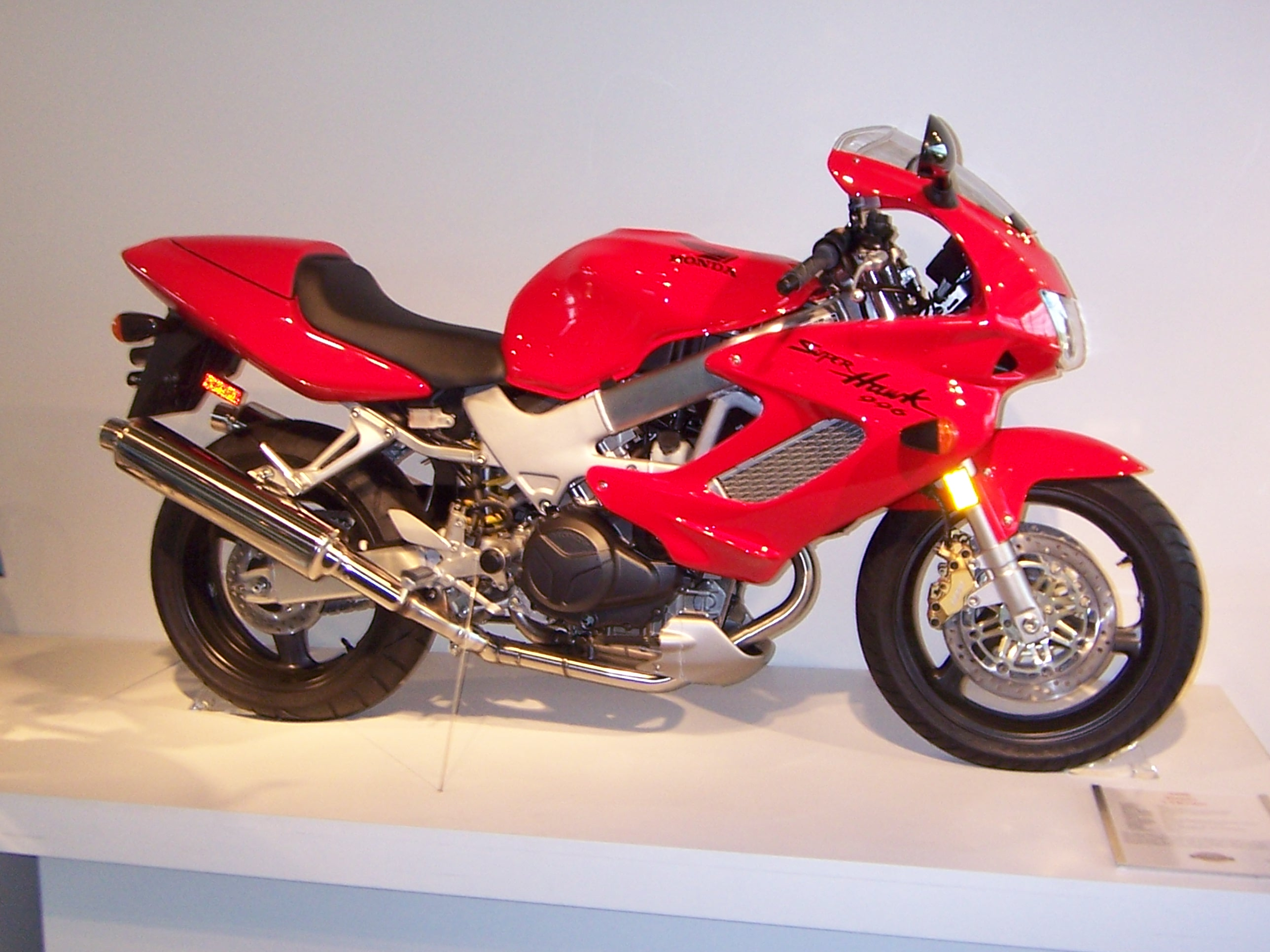 Barber Motorcycle Museum - Oct 22 2006 (597) 1998 Honda VTR1000 / More Description is [ here]